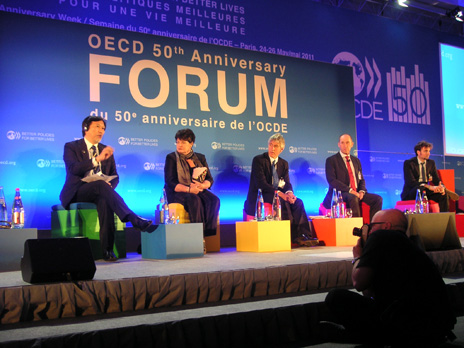 Sharan Burrow, General Secretary of the International Trade Union Confederation, Steve Killelea, Founder of the Institute for Economics and Peace, Yoshinori Suematsu, Senior Vice-Minister of Cabinet Office, Irena Križman, Director-General of the Statistical Office, and Giuseppe Porcaro, Secretary General of the European Youth Forum, attended the OECD 50th Anniversary Forum at the Château de la Muette in Paris Commune, Paris Department, Île-de-France Region on May 24, 2011.